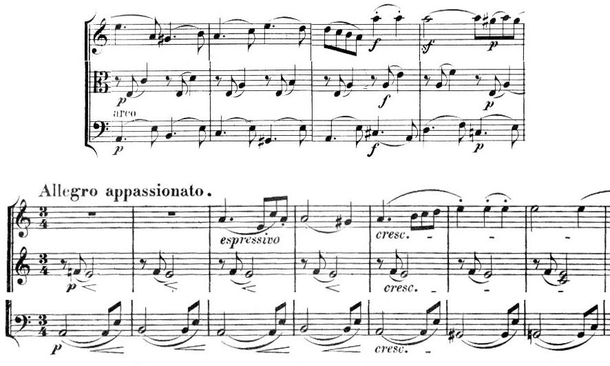 A comparison of the themes of the last movements of Mendelssohn's opus 13 string quartet and Beethoven's opus 132.